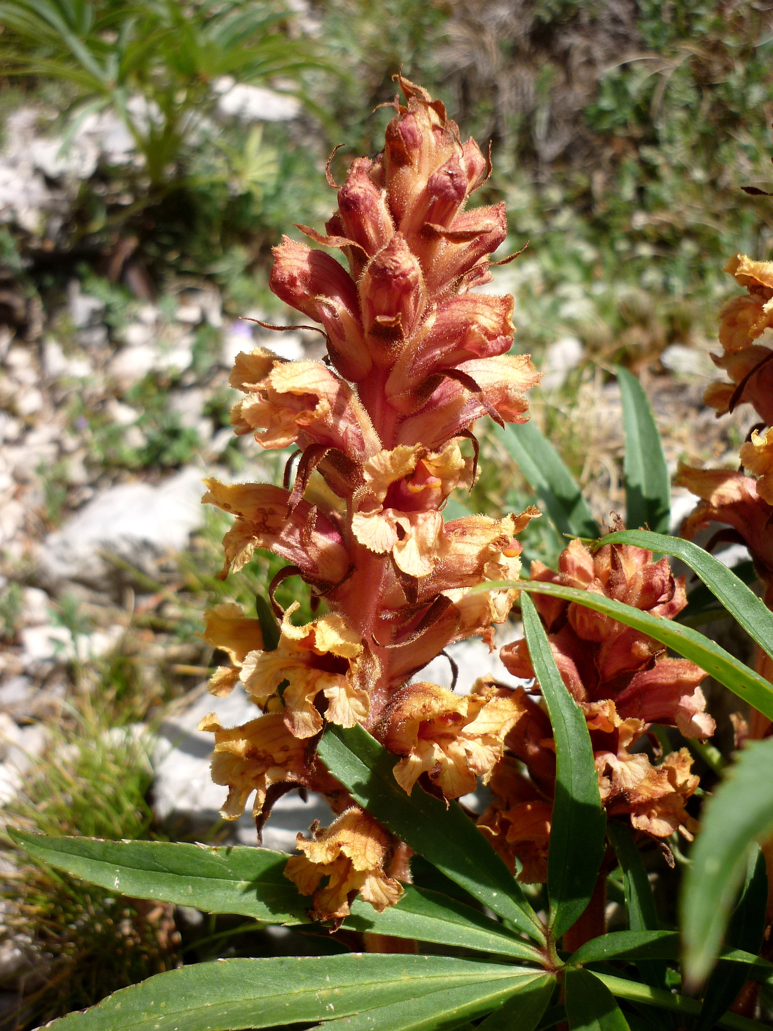 Orobanche haenseleri, parasitic of helleborus foetidus. In la Bòfia, Odèn (Solsonès - Catalunya). To 1.785 m. altitude